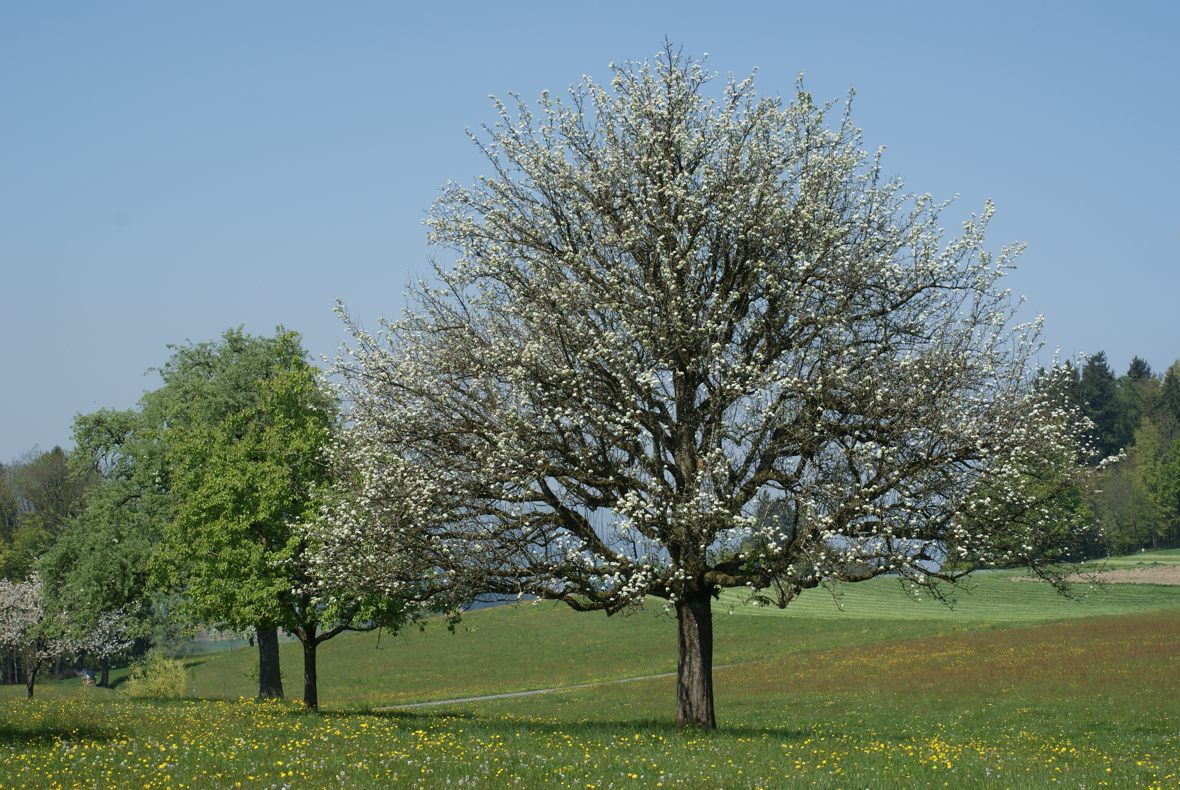 Tree of the Swiss pear variety "Trübler".